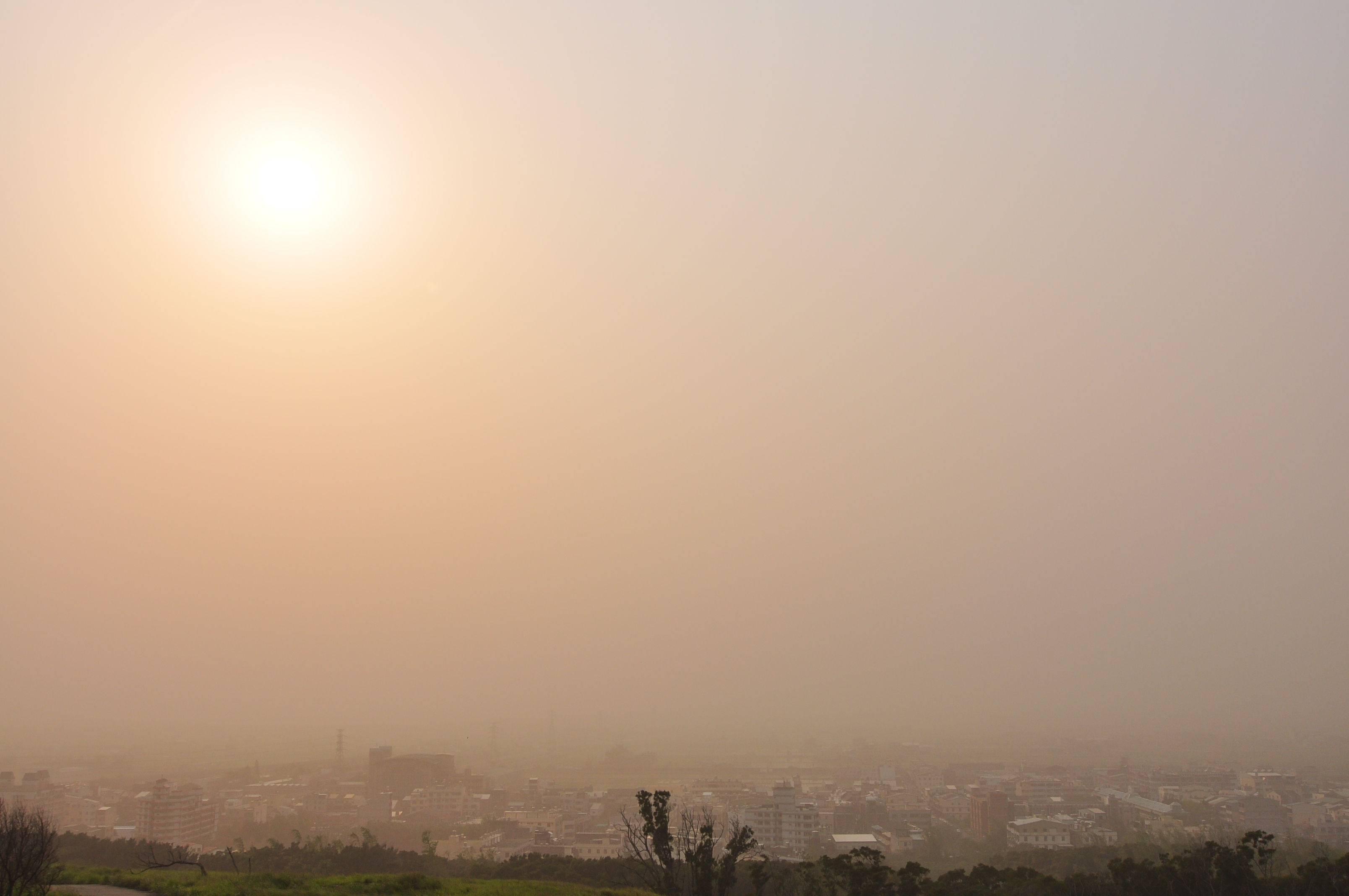 Thick dust storm blown off the area of caost-line in Taichung County,over Qingshui Plain.Dust storm is from North China in the People's Republic of China.This photo was taken from Longjing Township at 4:35PM on March 21st,2010.